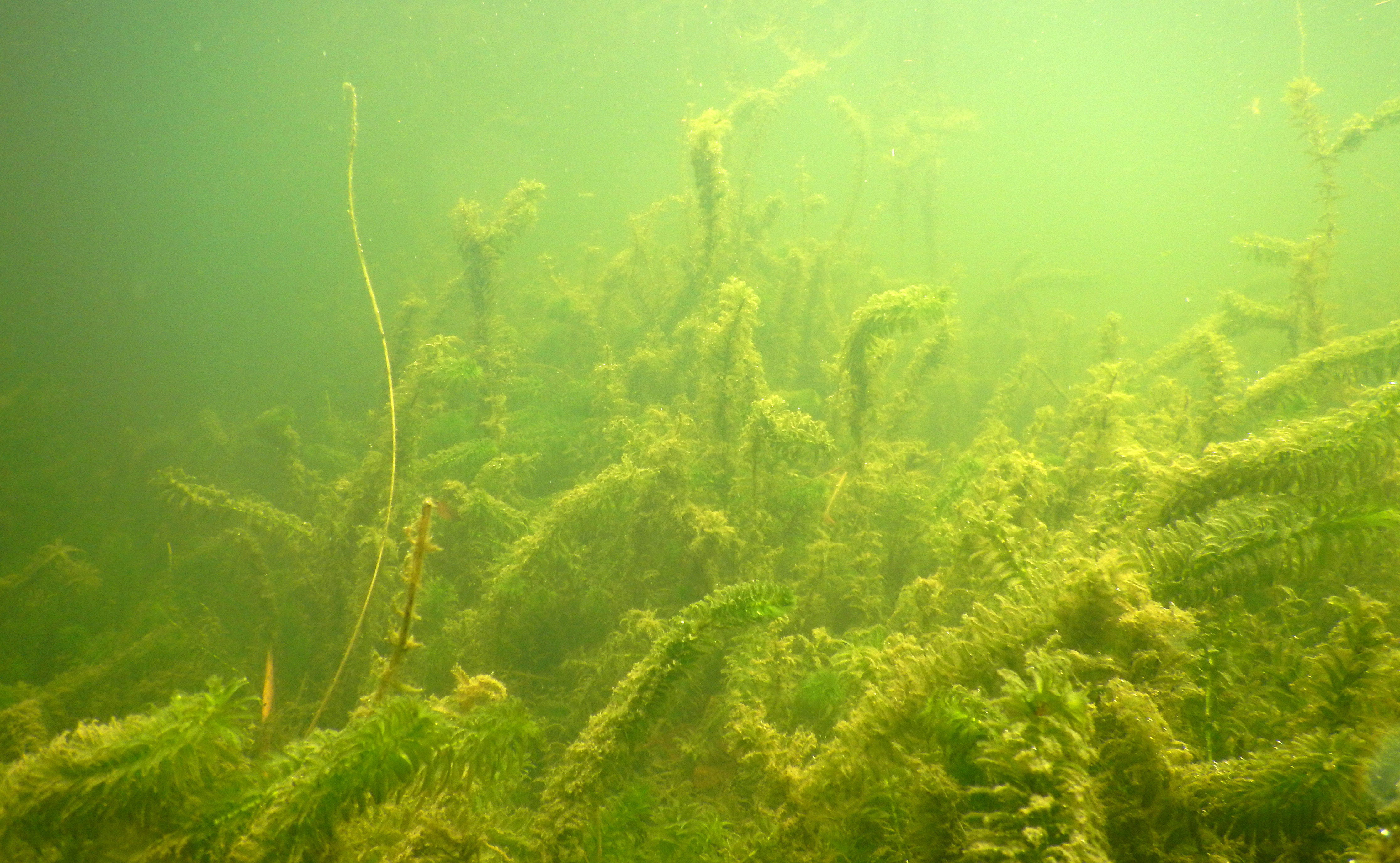 biological invasion of the fishing pond of Saint-Nolf in Morbihan (near Condat stream, near a football field and near a railroad (access of the pont by the Departmental road 135) By far, this plant evokes waterweed Elodea, but it's Egeria densa.